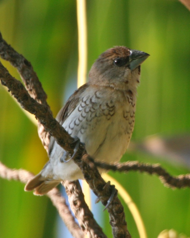 Scaly-breasted Munia - young adult, front plumage almost fully patterned Lonchura punctulata aka Loxia punctulata Location: Ubud, Bali, Indonesia June 19, 2005 ssp Lonchura punctulata nisoria Indonesian: Bondol dada sisik, Bondol peking Malay: Pipit Pinang Distrubition: ssp L. p. nisoria